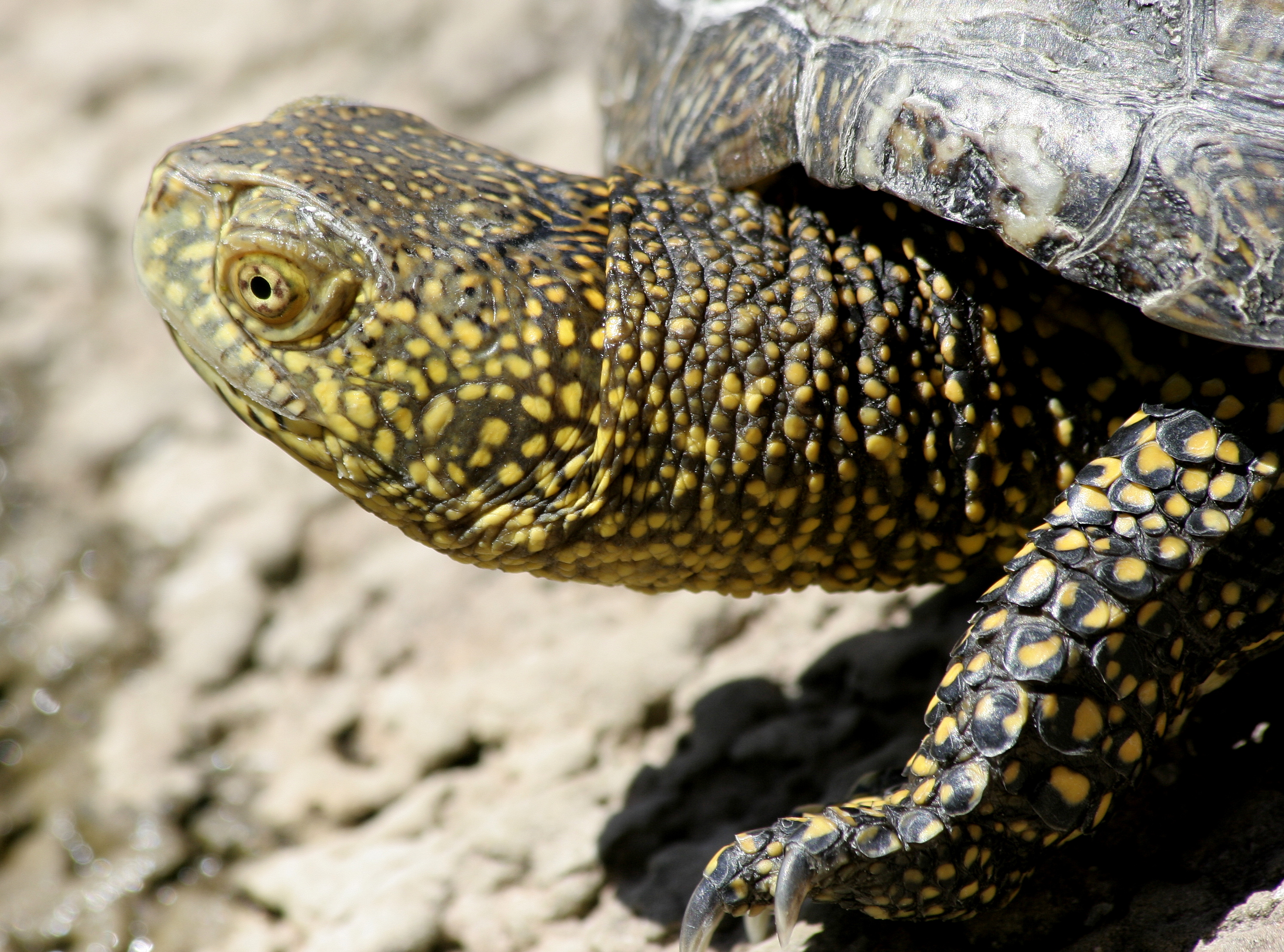 Portrait of emys orbicularis Ritratto di emys orbicularis